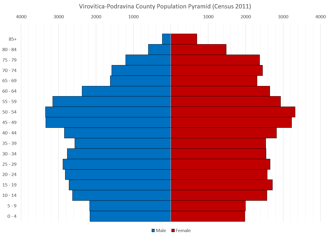 Population pyramid Virovitica-Podravina County. Version in English. Data from 2011 Census; available at